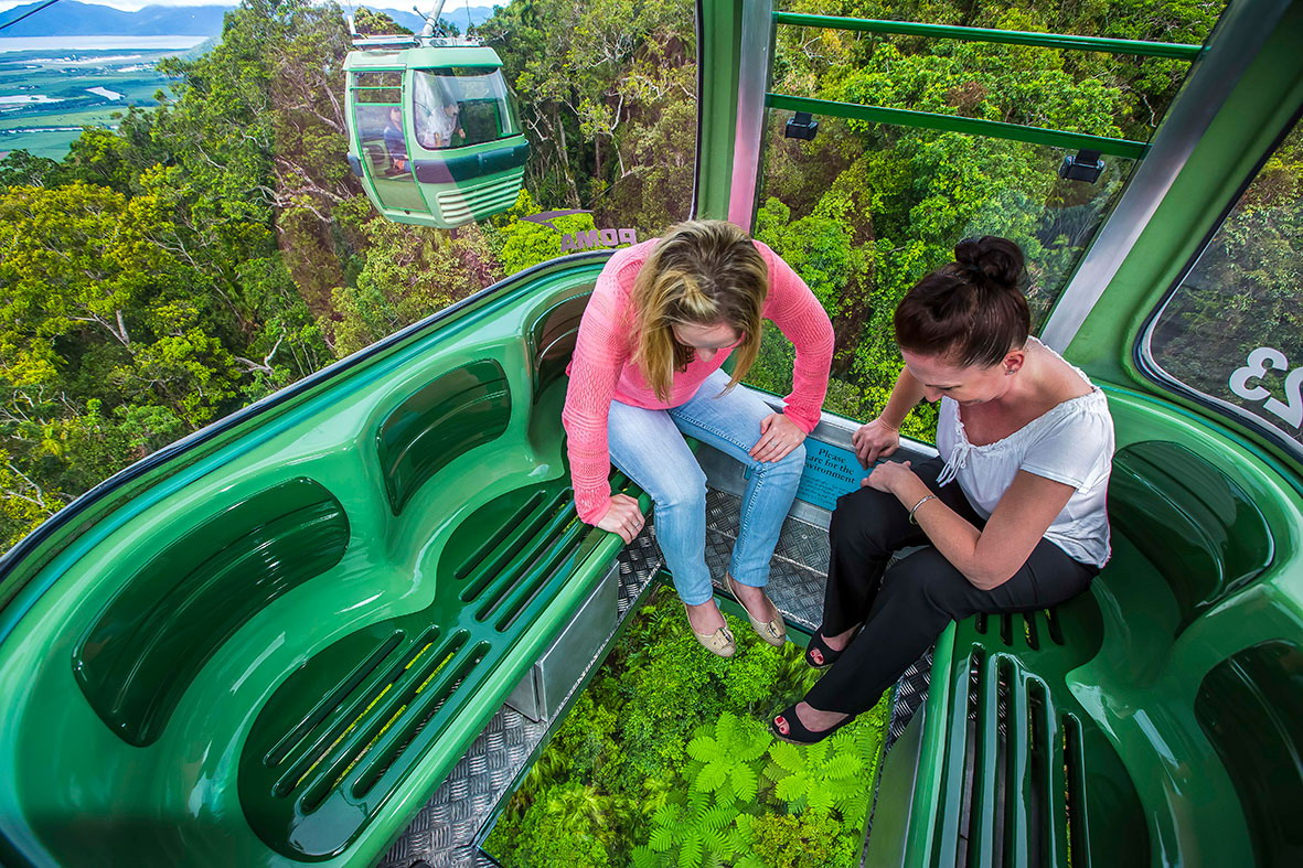 View from Diamond View glass floor gondola